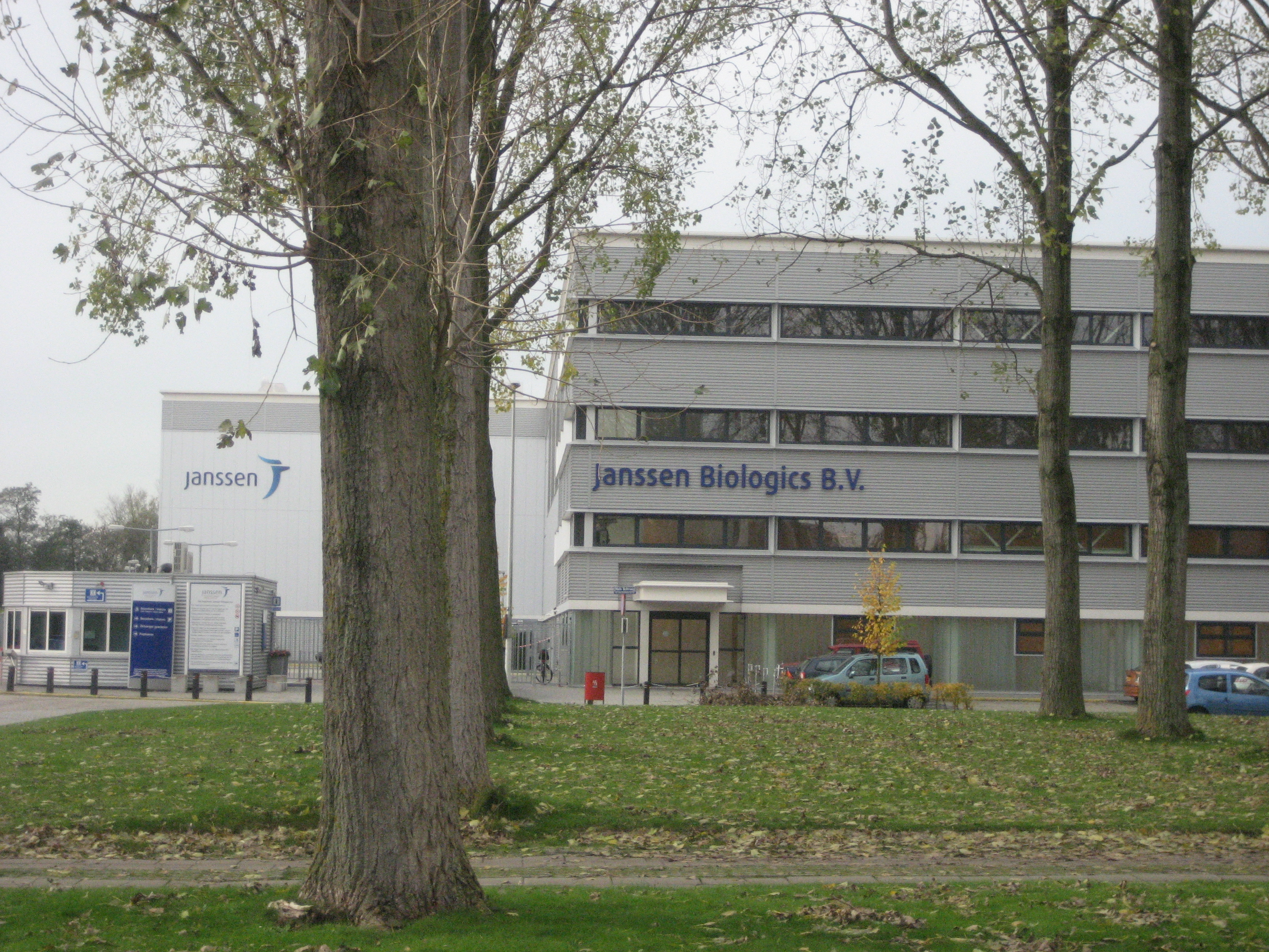 Janssen Biologics (formerly Centocor), Leiden Bio Science Park (The Netherlands)